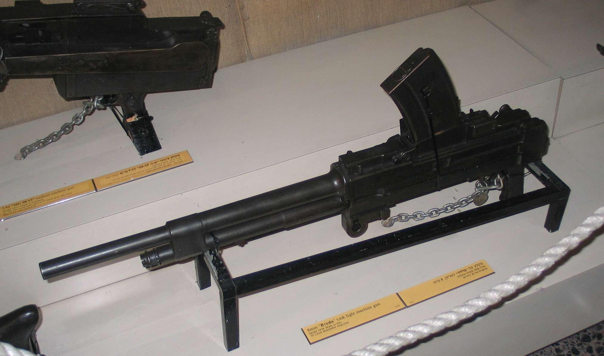 Batey ha-Osef museum, Tel Aviv, Israel. Breda machine gun.